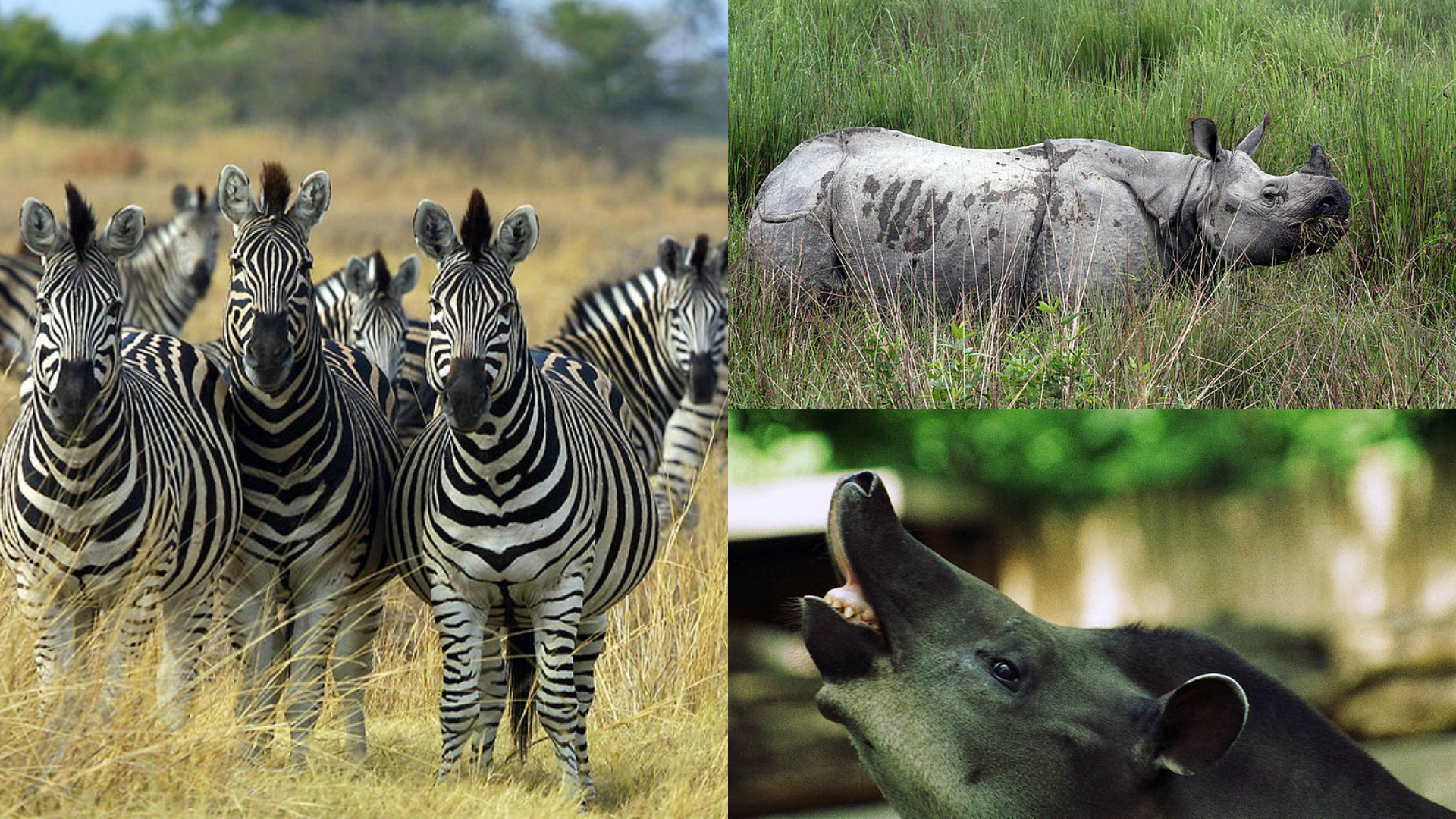 Montage of: File:Zebra Botswana edit02.jpg User:Paulmaz File:Kaziranga Rhinoceros unicornis.jpg Diganta Talukdar File:Tapirus.terrestris.flehmen.jpg Anna Schultz